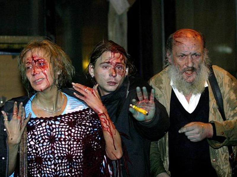 Victims of the Hungarian Police's actions on 23rd October 2006, were of all ages.